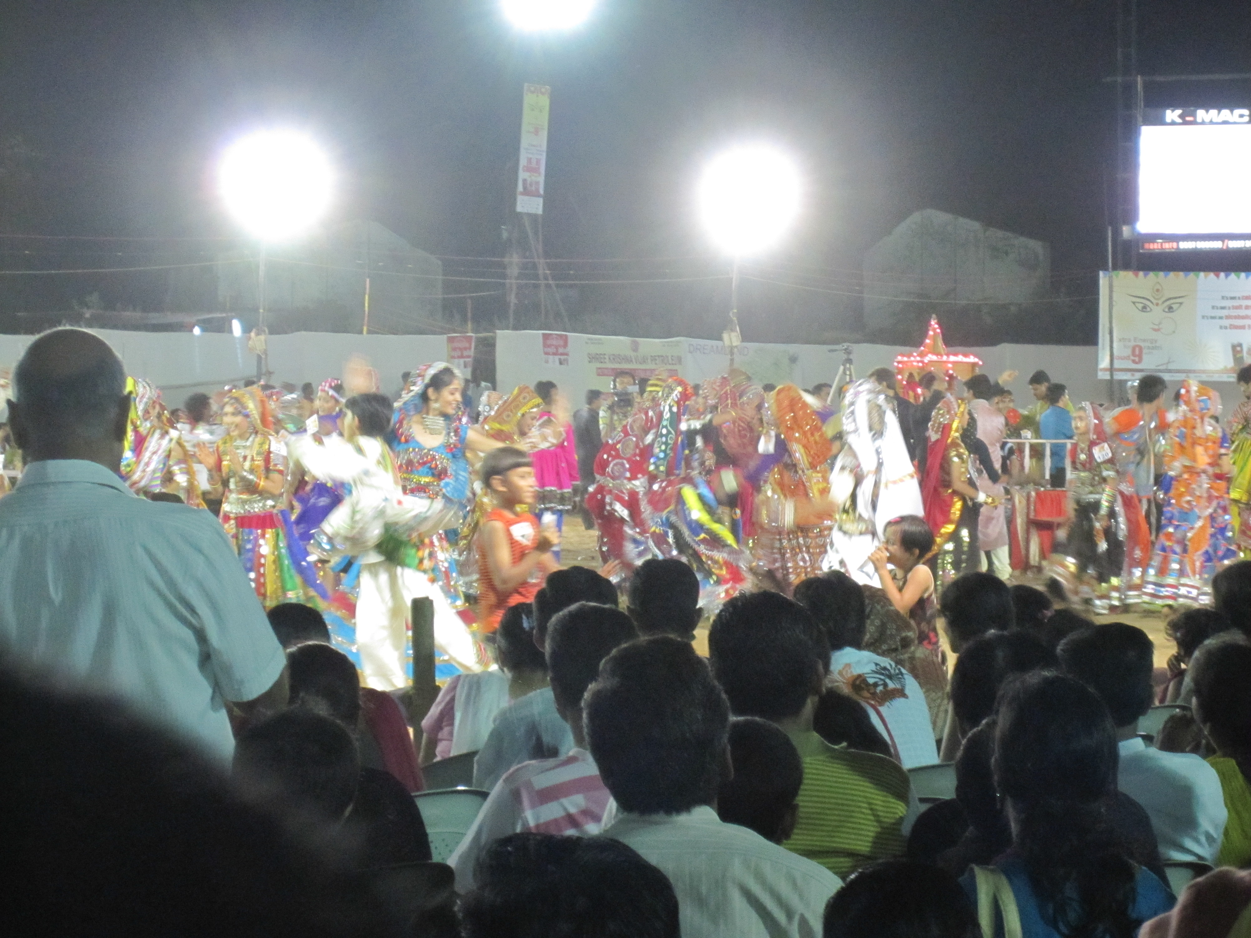 Navratri garba in Bhuj, India. This was the final round of the competition so only the most beautifully dressed, best dancers remained. (Many garbas incorporate competitions, some with fabulous prizes. I think this one the grand prize was a motorbike.)